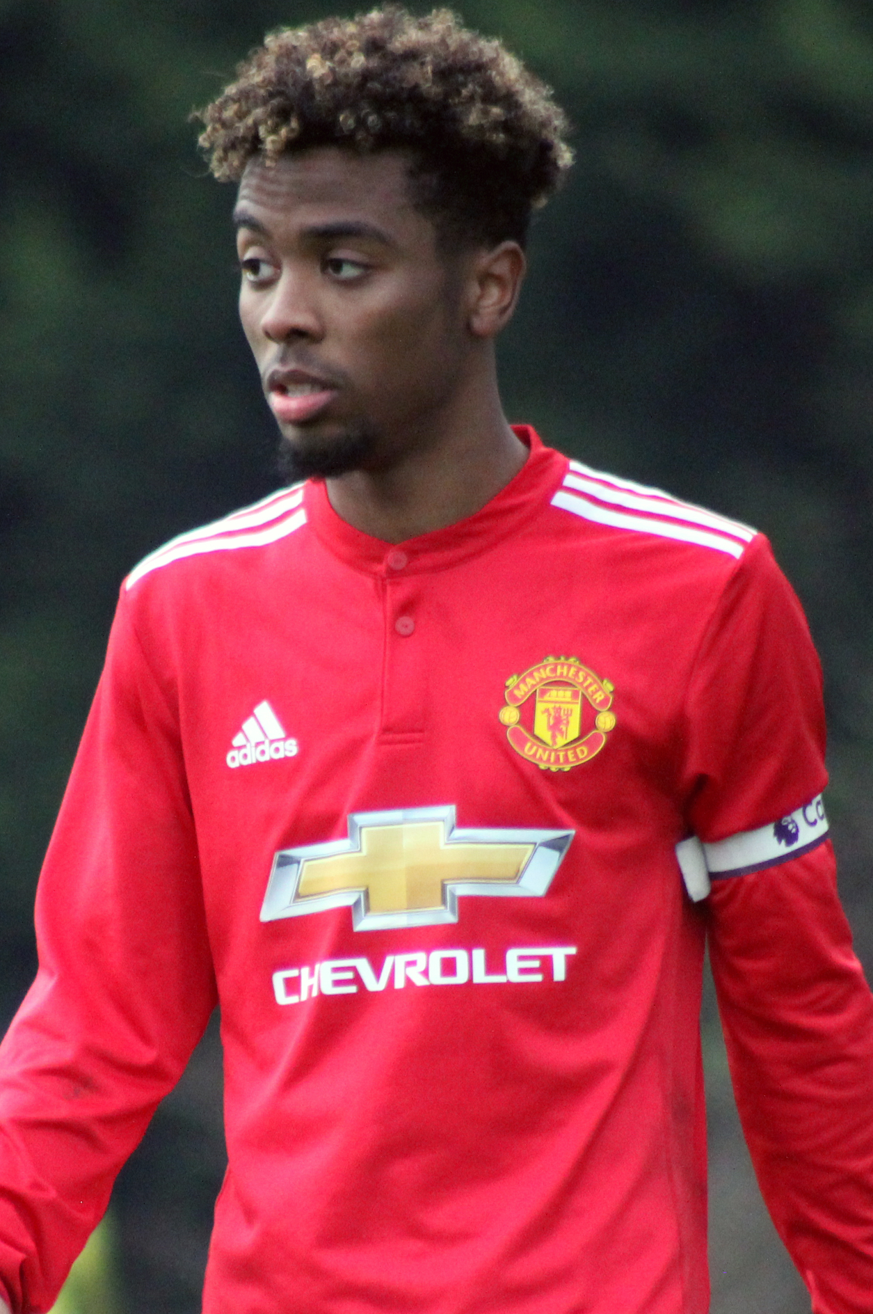 Blackburn Rovers U18s 1-4 Manchester United U18s U18 Premier League North Saturday 18 November Blackburn Rovers Training Centre